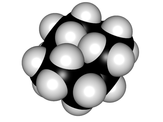 Chemical structure of cyclodecane in a low energy conformation according to: "Conformational Study of Cyclodecane and Substituted Cyclodecanes by Dynamic NMR Spectroscopy and Computational Methods" M. Pawar, Sumona V. Smith, Hugh L. Mark, Rhonda M. Odom, and Eric A. Noe J. Am. Chem. Soc., 1998, 120 (41), pp 10715–10720